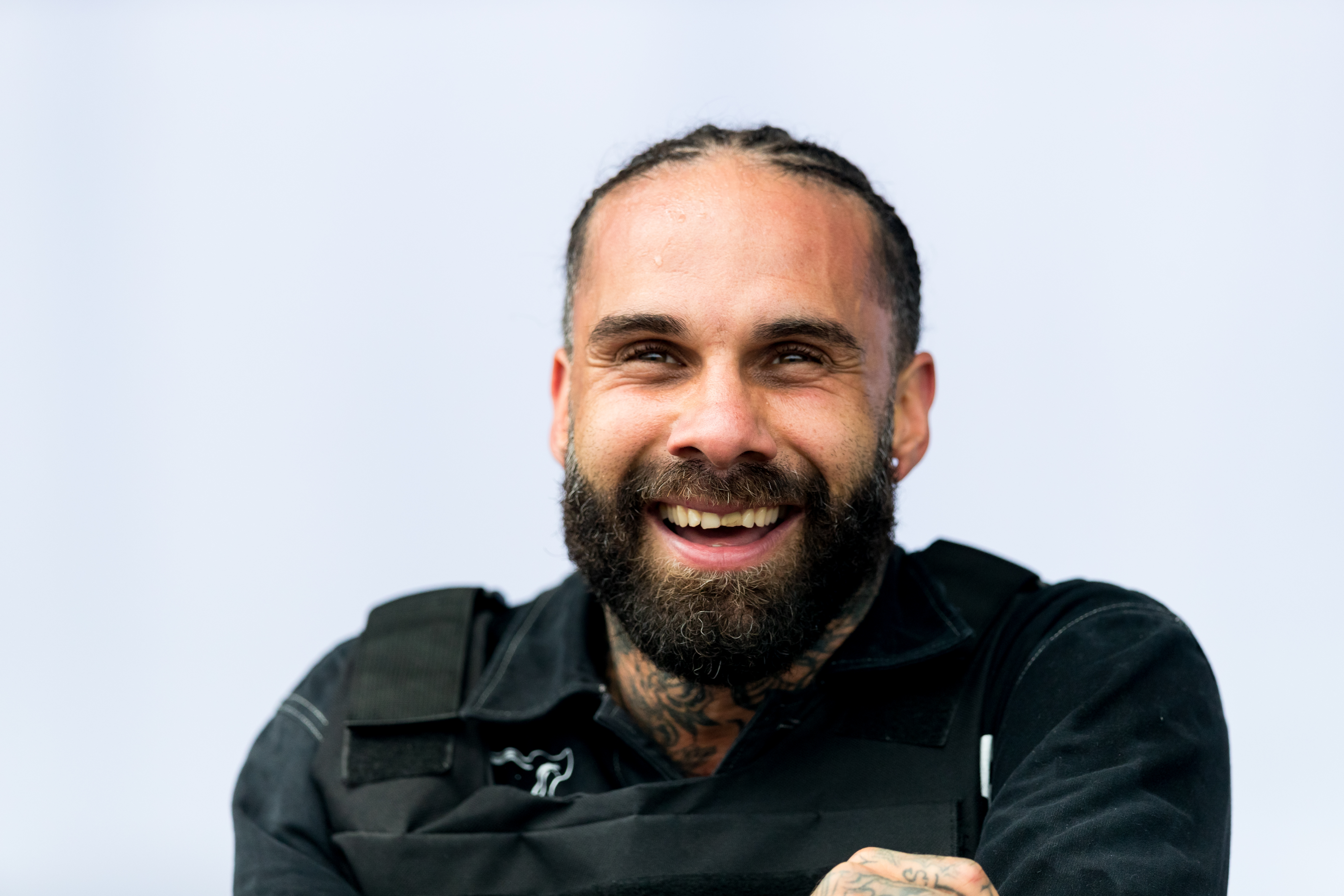 Fever 333 during Rock am Ring ( at Nürburgring, Rheinland-Pfalz, Germany on 2019-06-08, Photo: Sven Mandel Promotion by Live Nation (